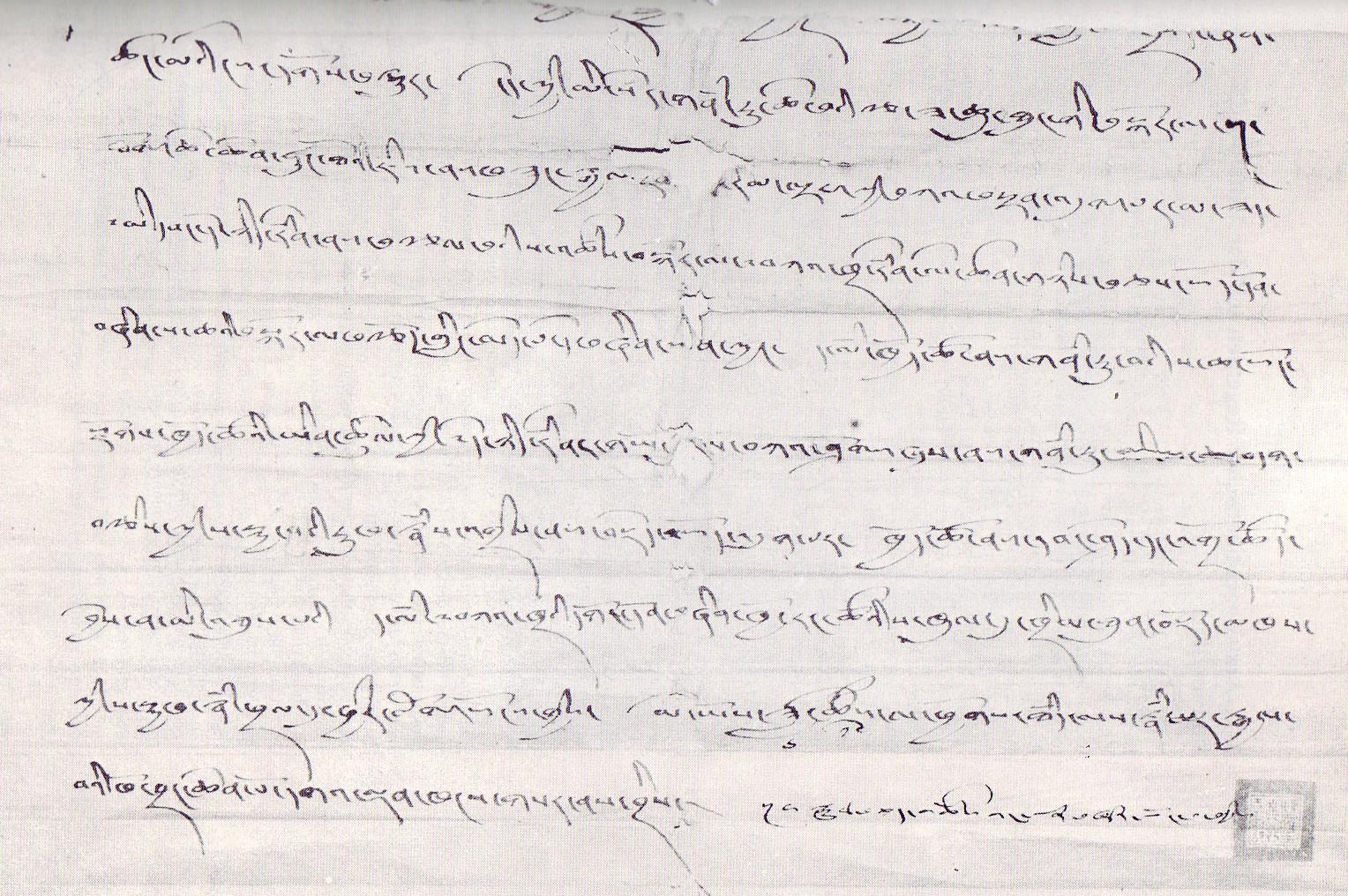 Legal Document of Gyurmed Namgyel issued 25th, July, 1747.